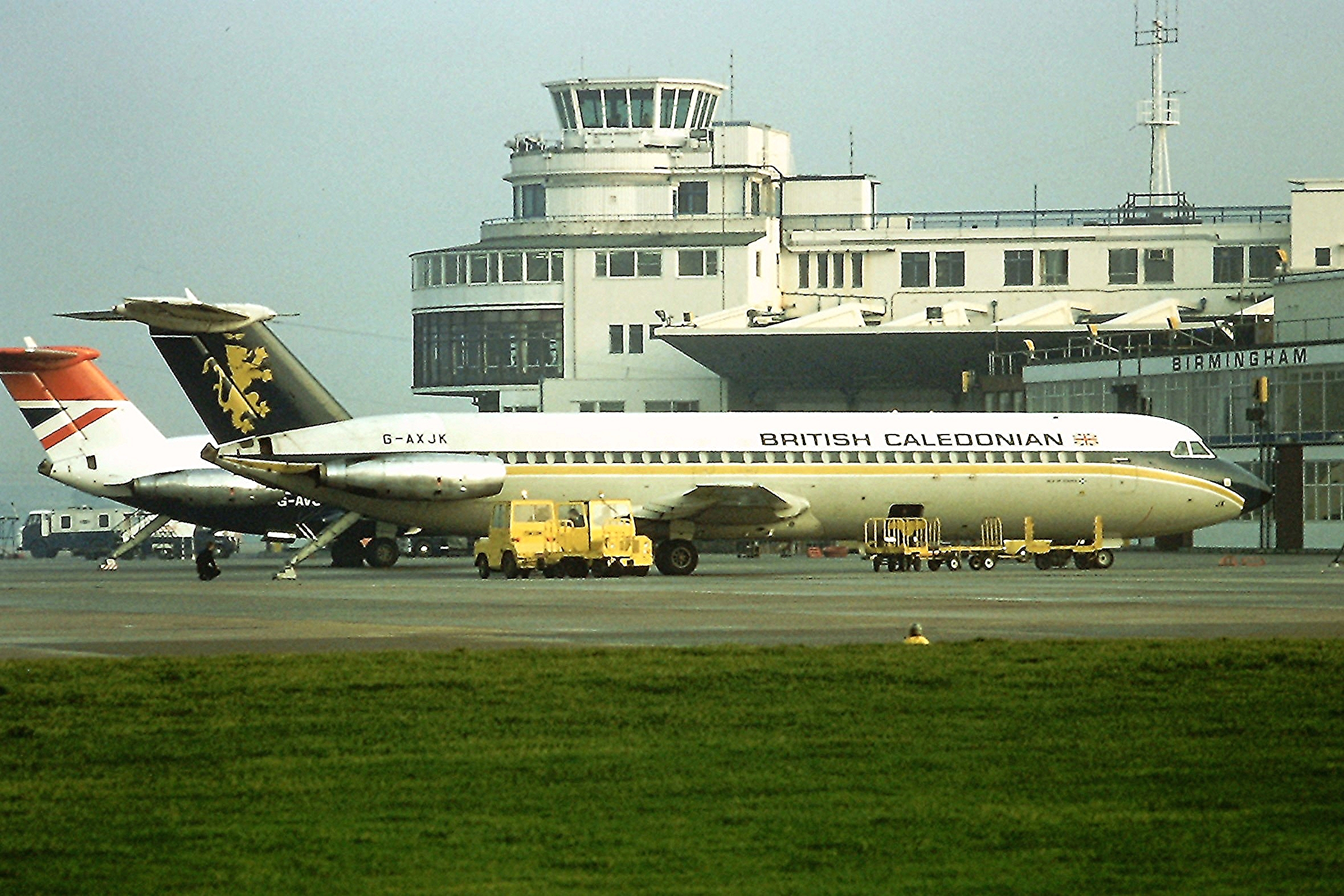 G-AXJK BAC1-11-501EX British Caledonian Birmingham 4 January 1978